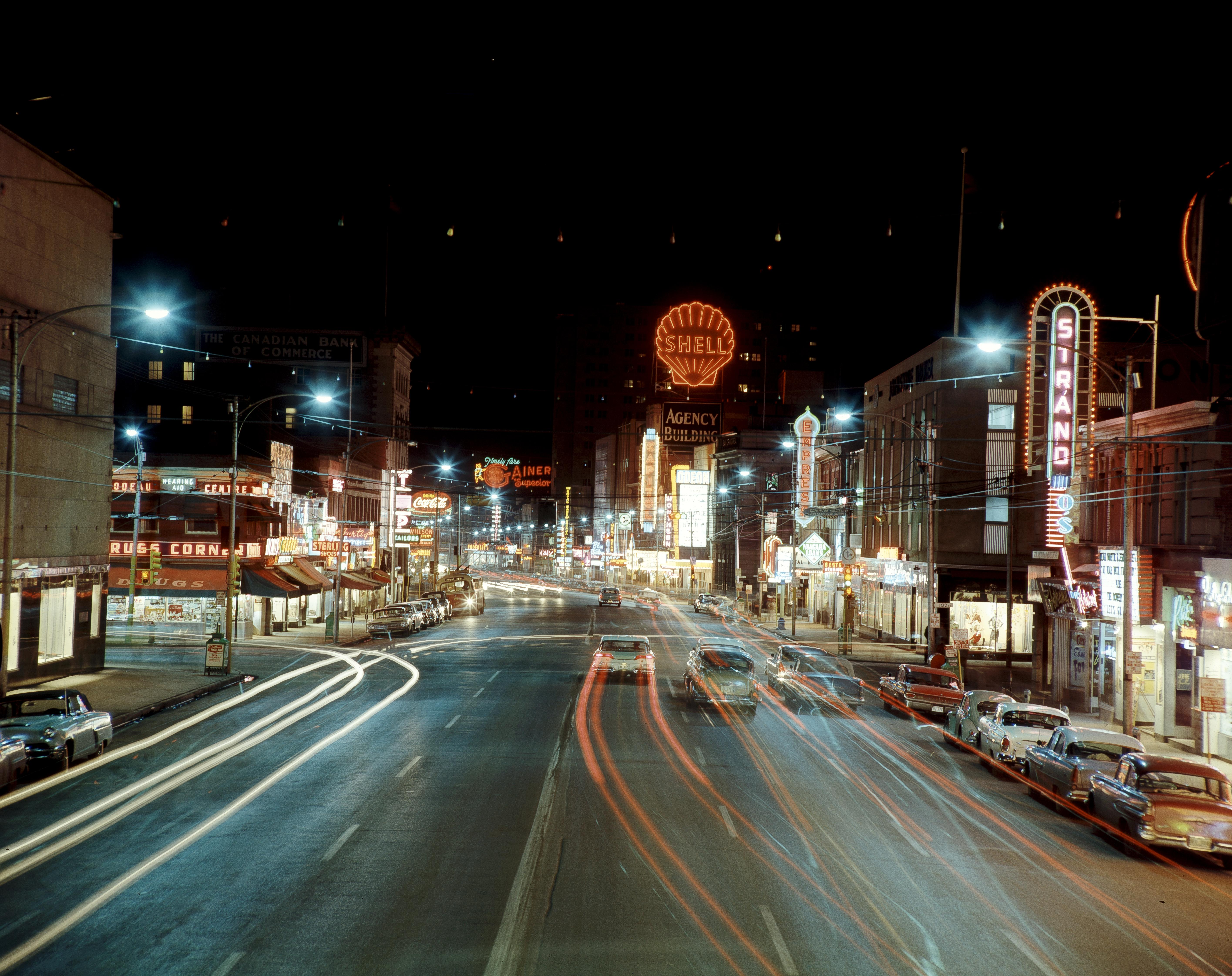 Jasper Avenue looking west from 103rd Street. Provincial Archives of Alberta, PA3301.1.